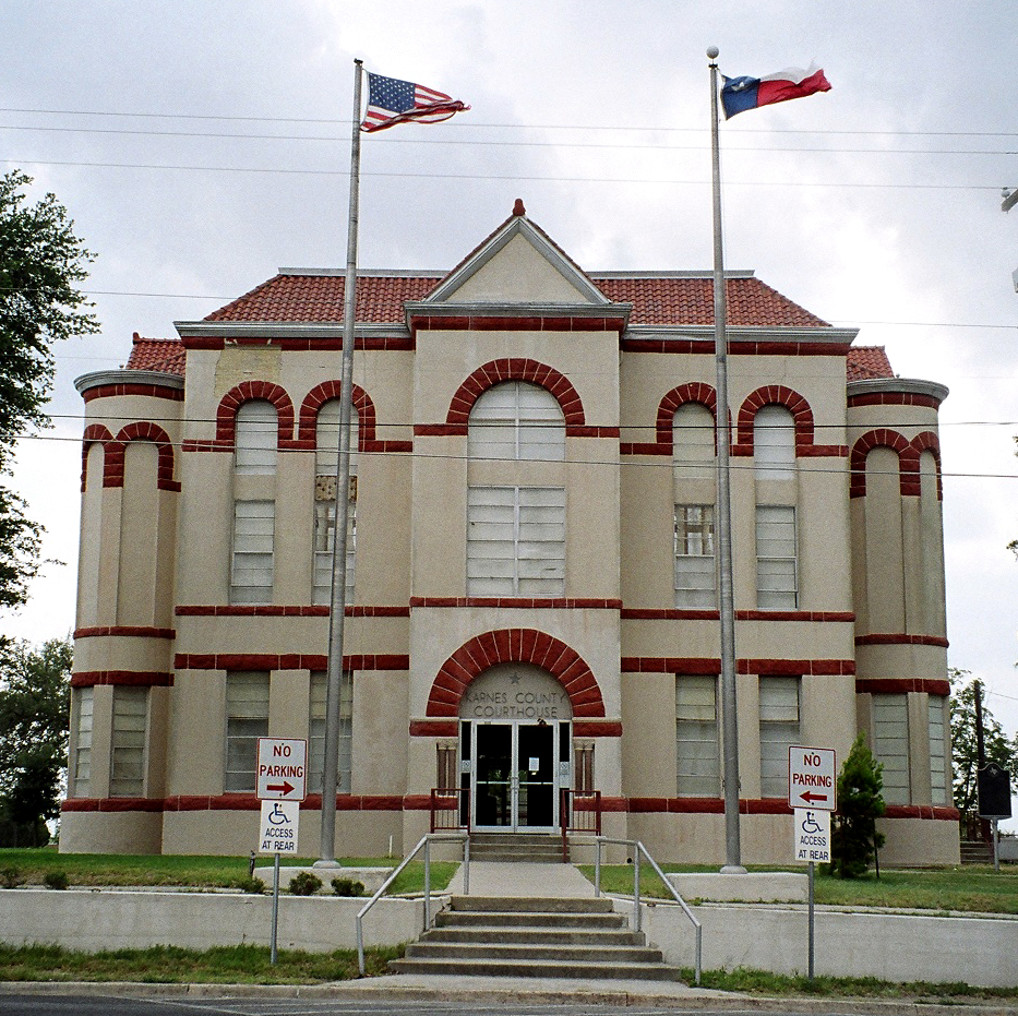 The Karnes County, Texas courthouse located in Karnes City, Texas, United States.